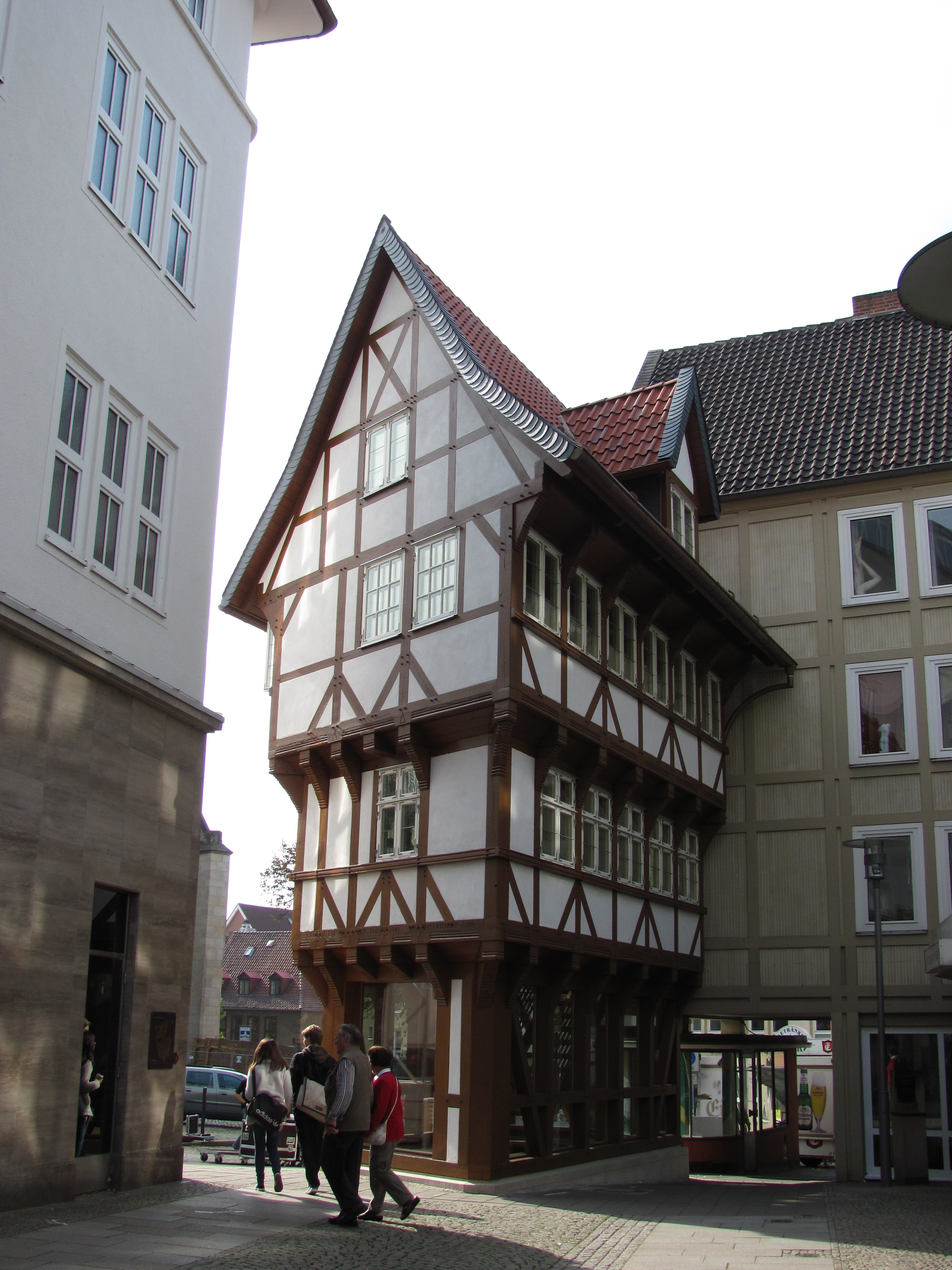 Upended Sugarloaf (built 1509, destroyed 1945, rebuilt 2010), Hildesheim, Germany